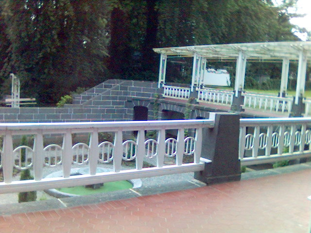 A balustrade. This is the renamed version of "Image:Bild(740).jpg" 21:02, 27. Sep. 2007 Extractor 640×480 89 KB Information |Description= |Source=self-made |Date= unknown|date |Author= Extractor